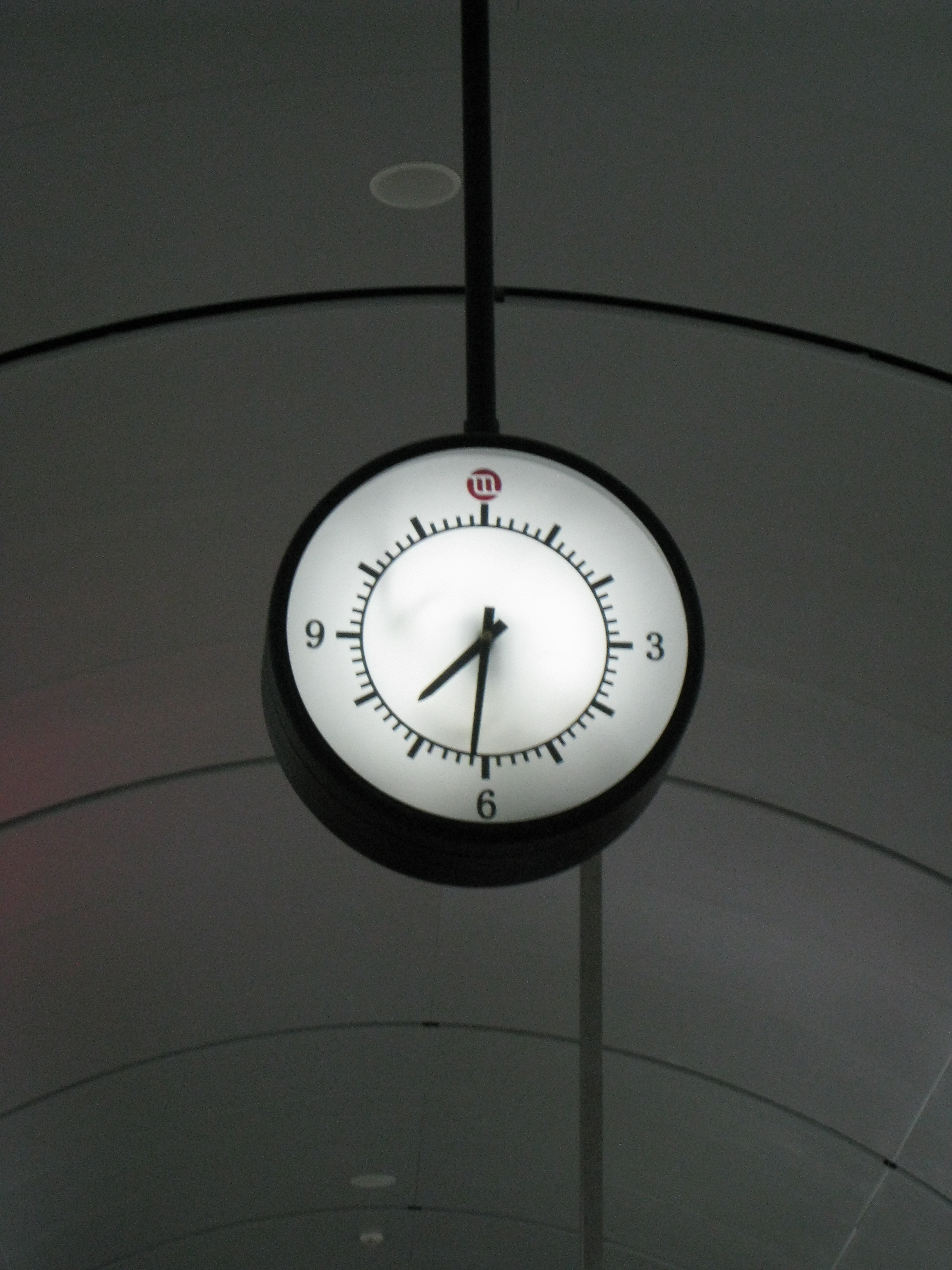 The MTR-style clock in Haidianhuangzhuang Station of Line 4, Beijing Subway. 中文（中国大陆）: 北京地铁4号线海淀黄庄站的港铁风格大钟。